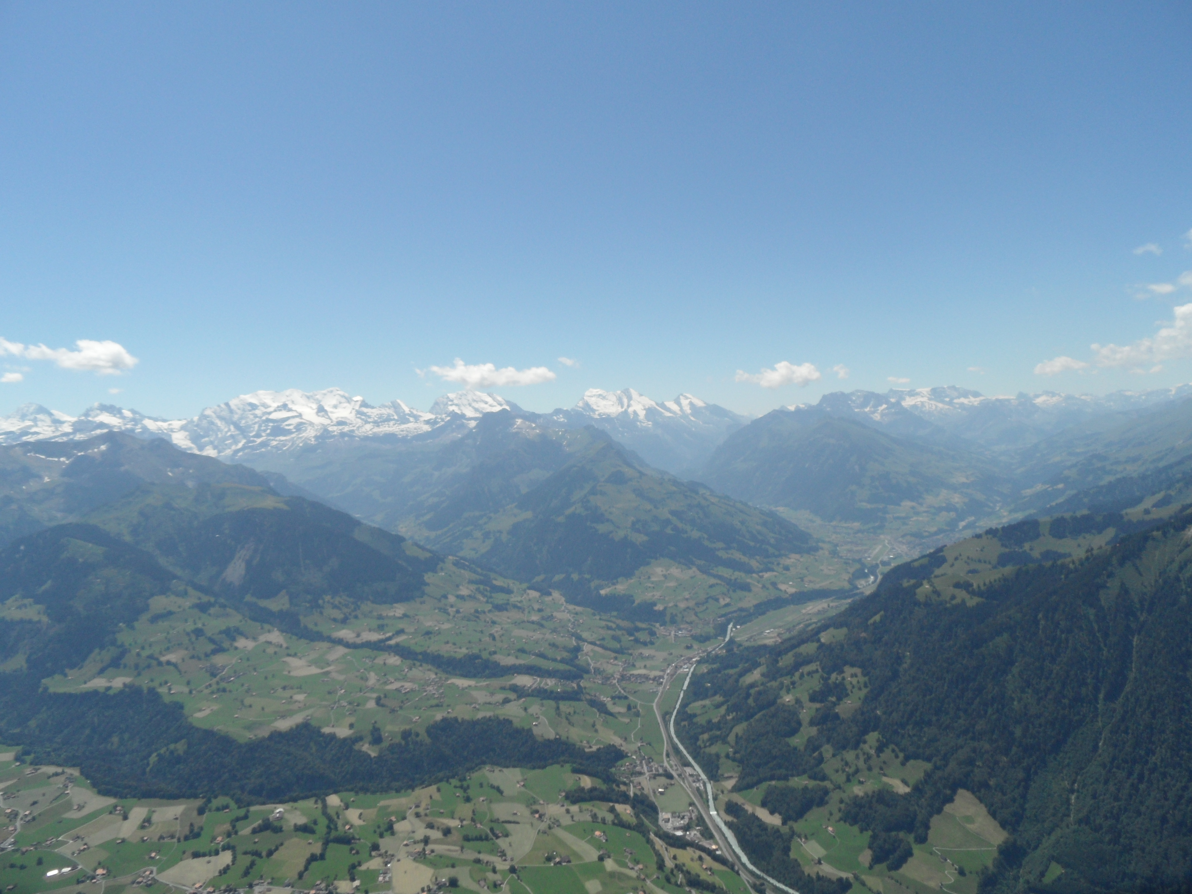 the Frutig valley in the Bernese Oberland